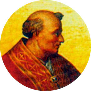 Portait of Pope Victor III in the Basilica of Saint Paul Outside the Walls, Rome